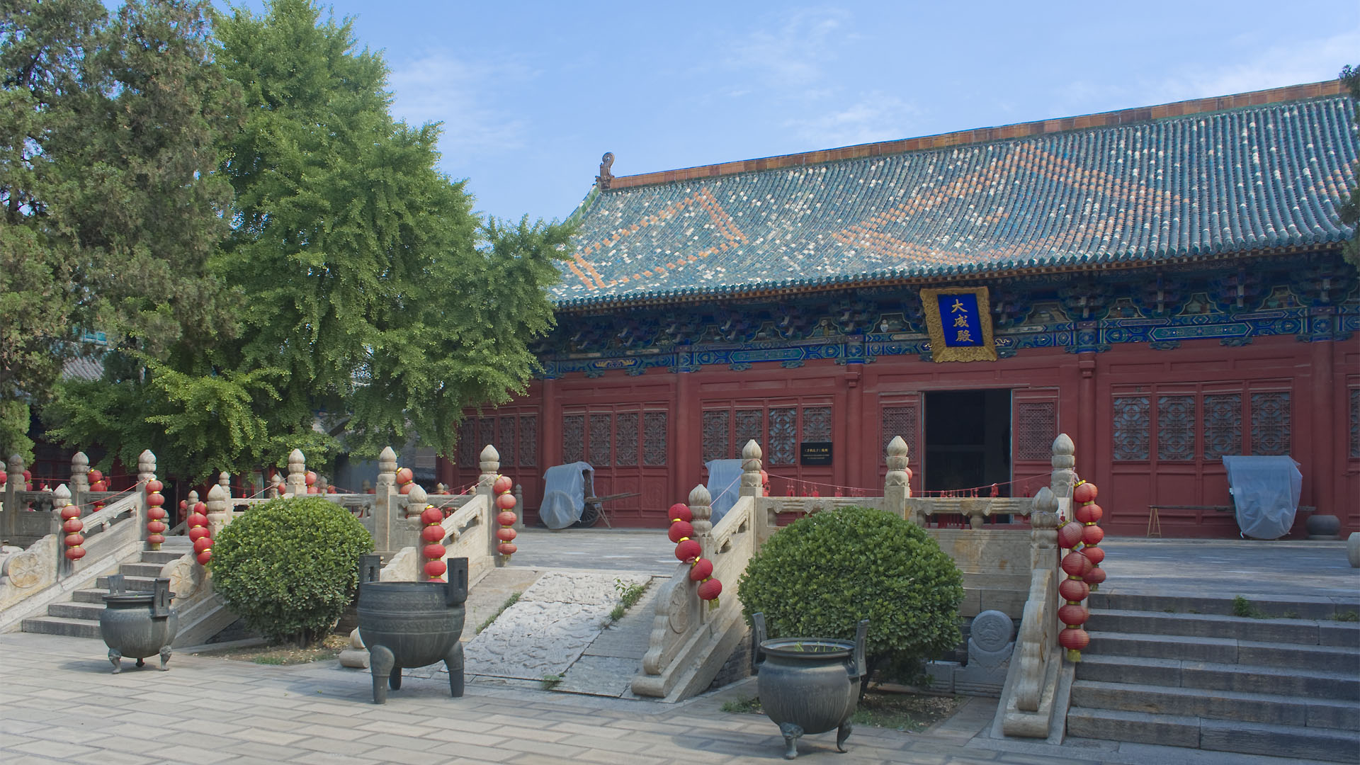 Shanxi folklore museum courtyard with old confucianic temple housing an exhibition about… Confucius.